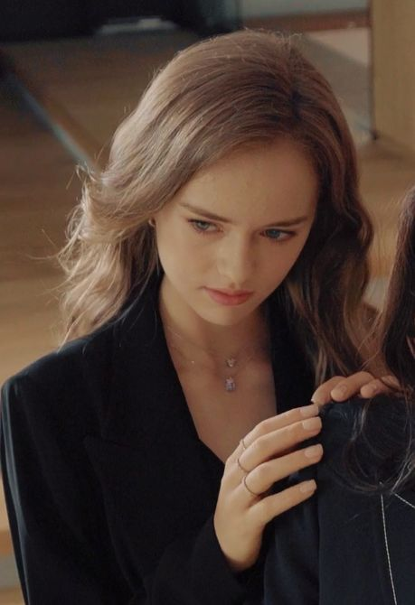 Kristina Pimenova in the “Be a Joelle” fashion film by88 Gymnastic heroes, Seoul, Korea